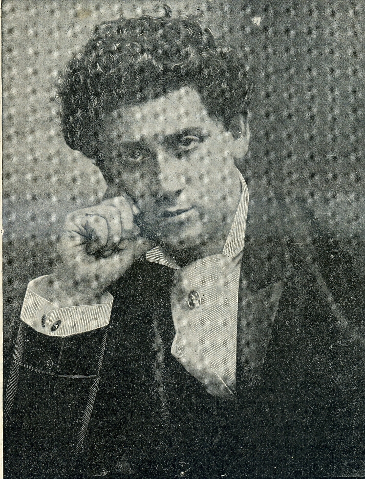 A Yiddish theater player